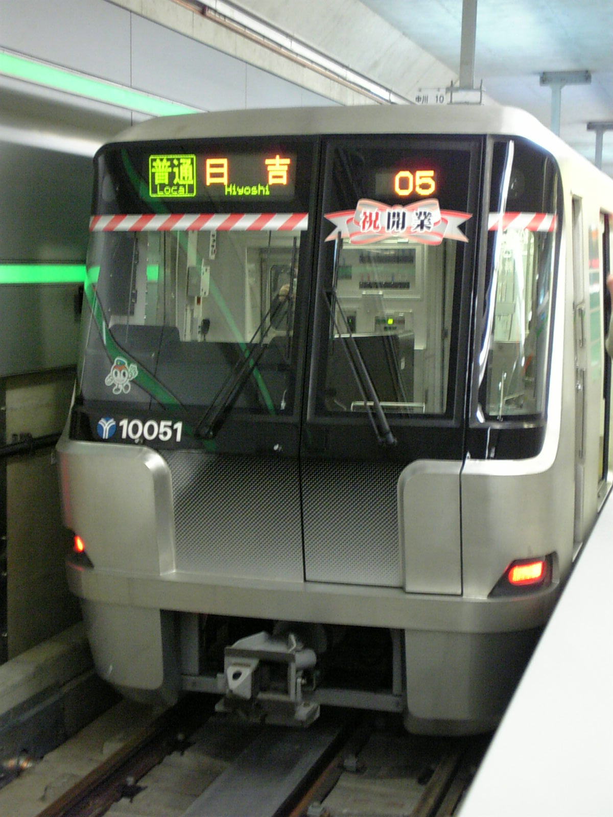 Yokohama City Subway Green Line 10005 Train with a service opening memorial sticker.